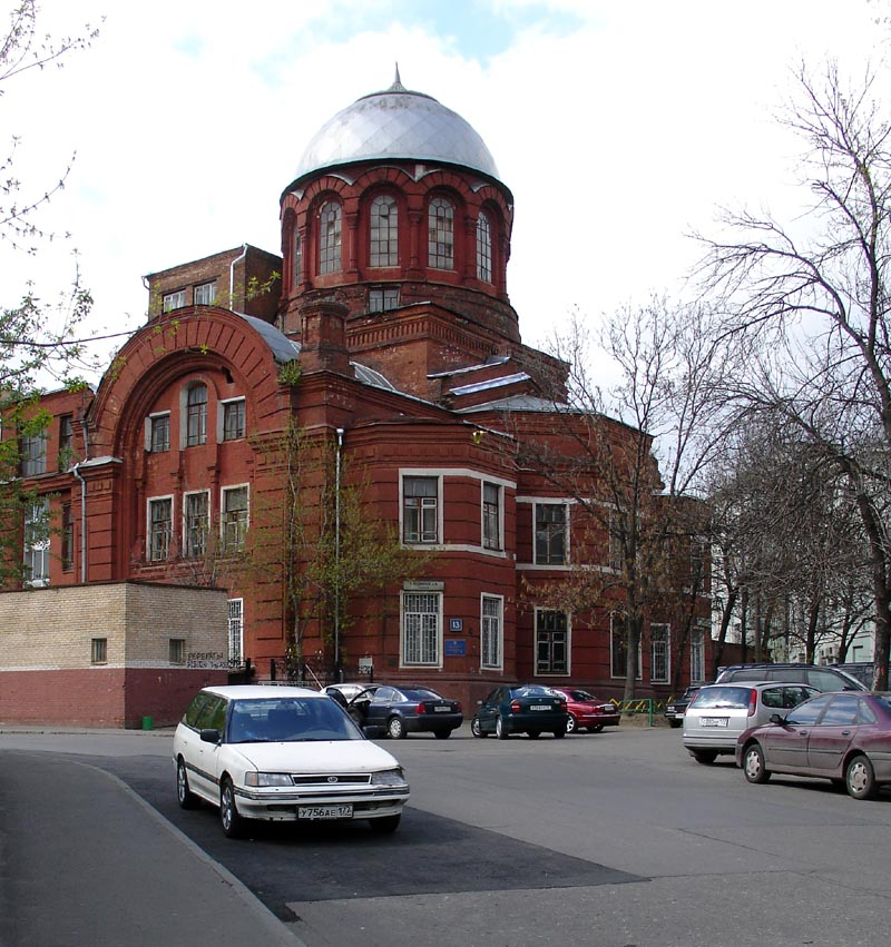 Saint George Cathedral, Gruzinskaya Square, Moscow